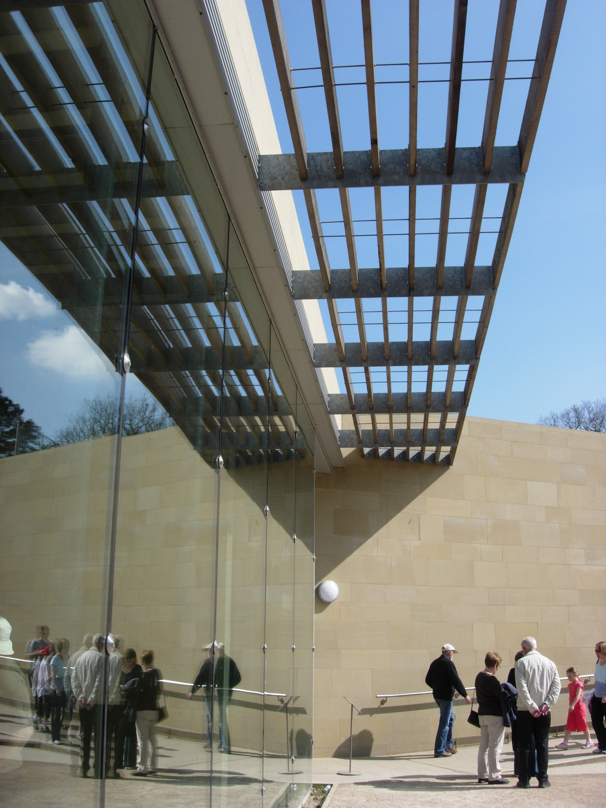 Yorkshire sculpture park